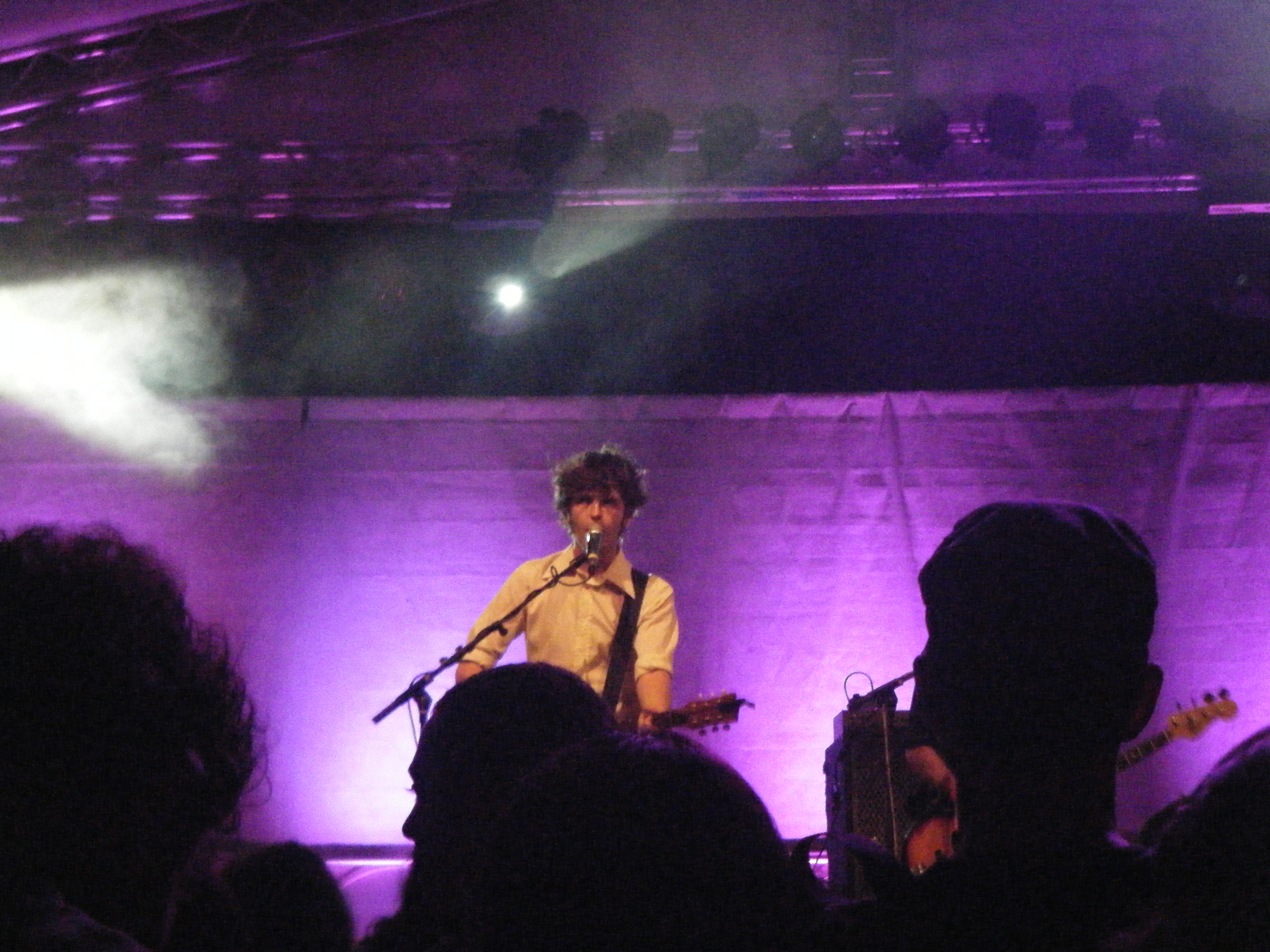 Italian singer songwriter Dente live on 2010/08/21 at Magnolia club, Segrate, MI (IT).